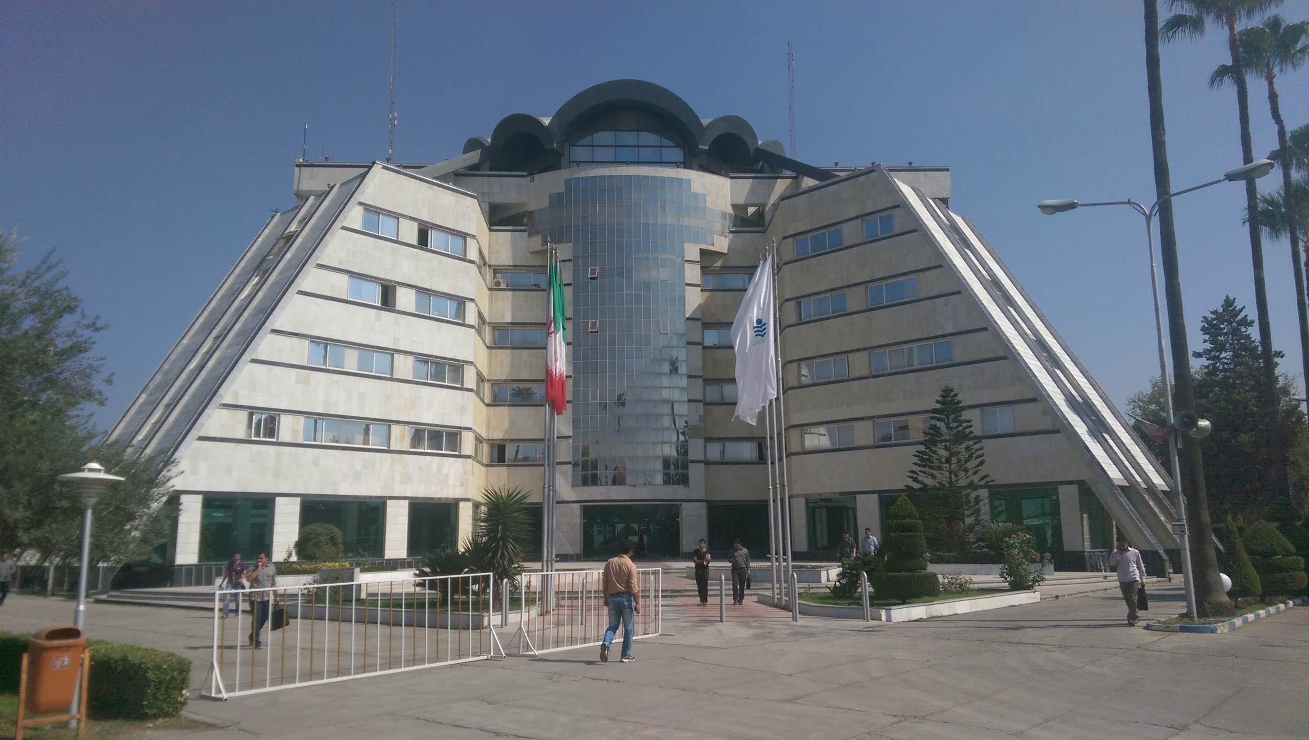 Babol Noshirvani University of Technology administration building.